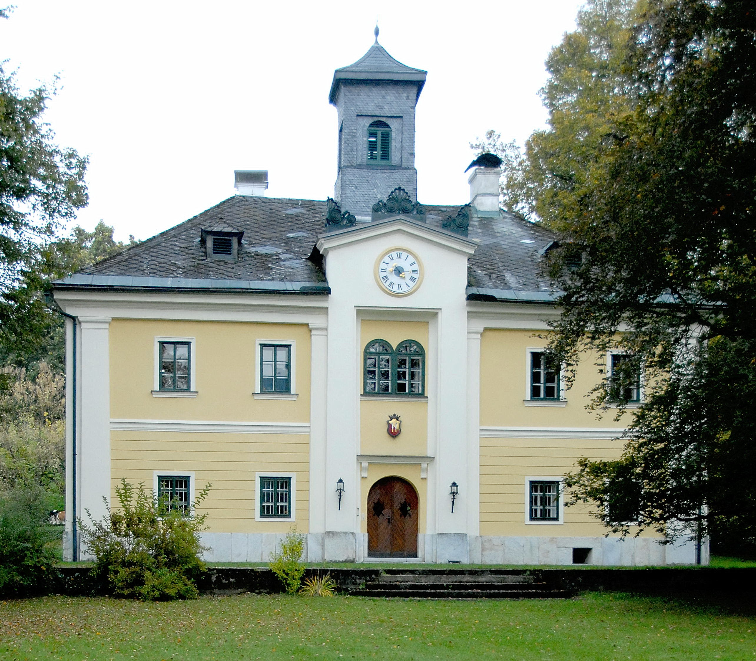 Castle in Dietrichstein #1, municipality Feldkirchen in Kärnten, district Feldkirchen, Carinthia, Austria, EU